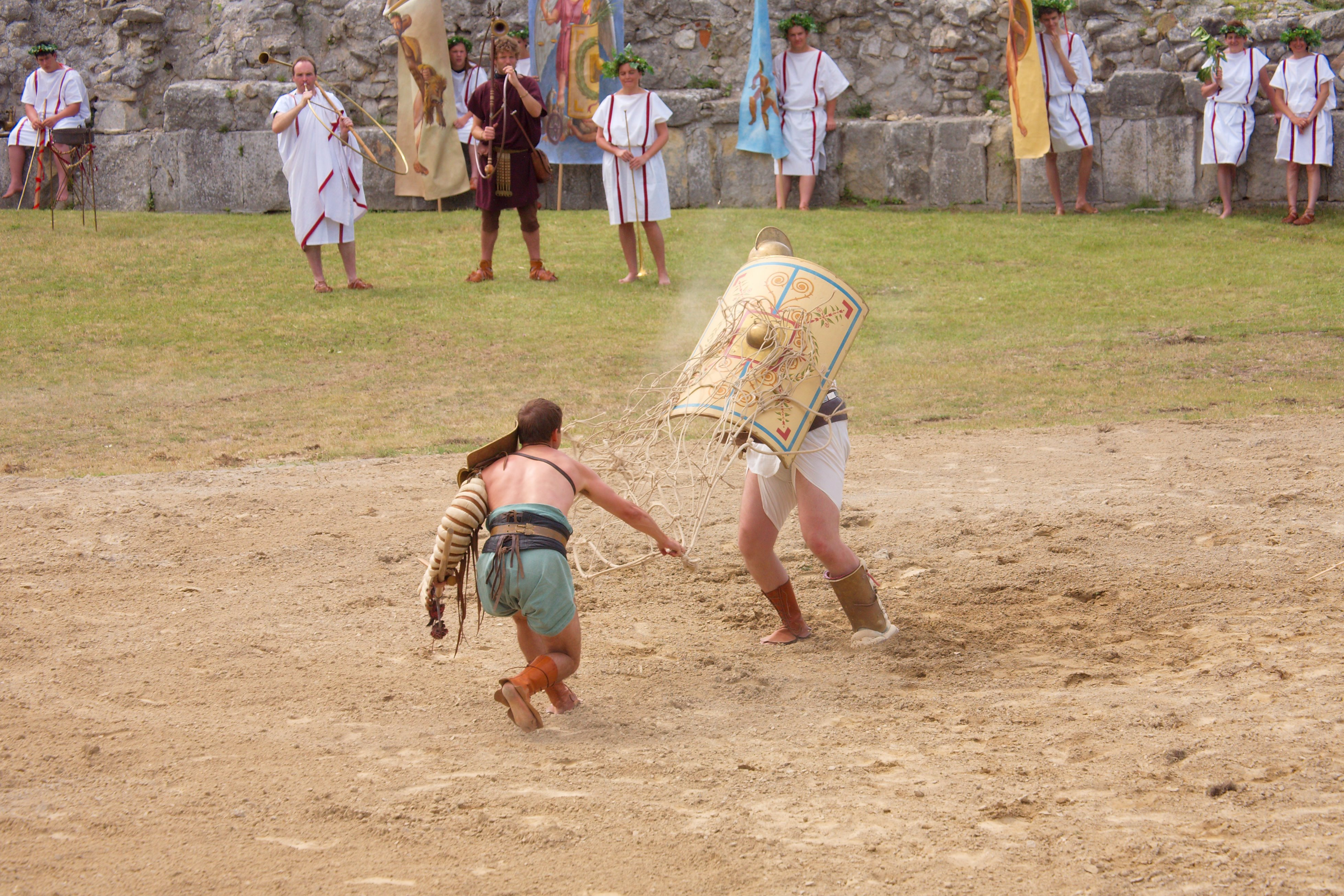 Show fight of the "familia gladiatoria pulli cornicinis" in Carnuntm, Austria.